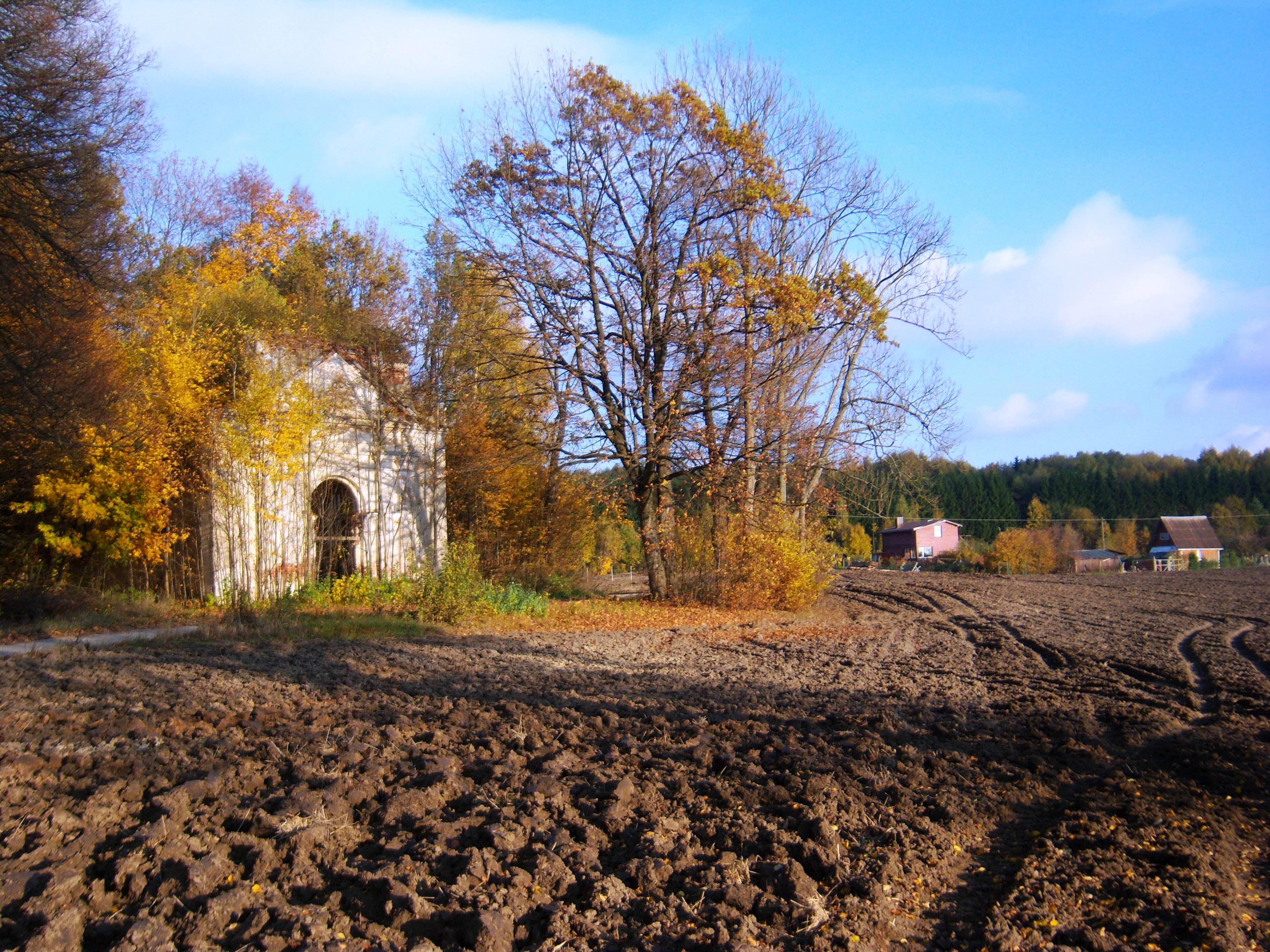 Former Digriai Chapel, Kaunas district, Lithuania